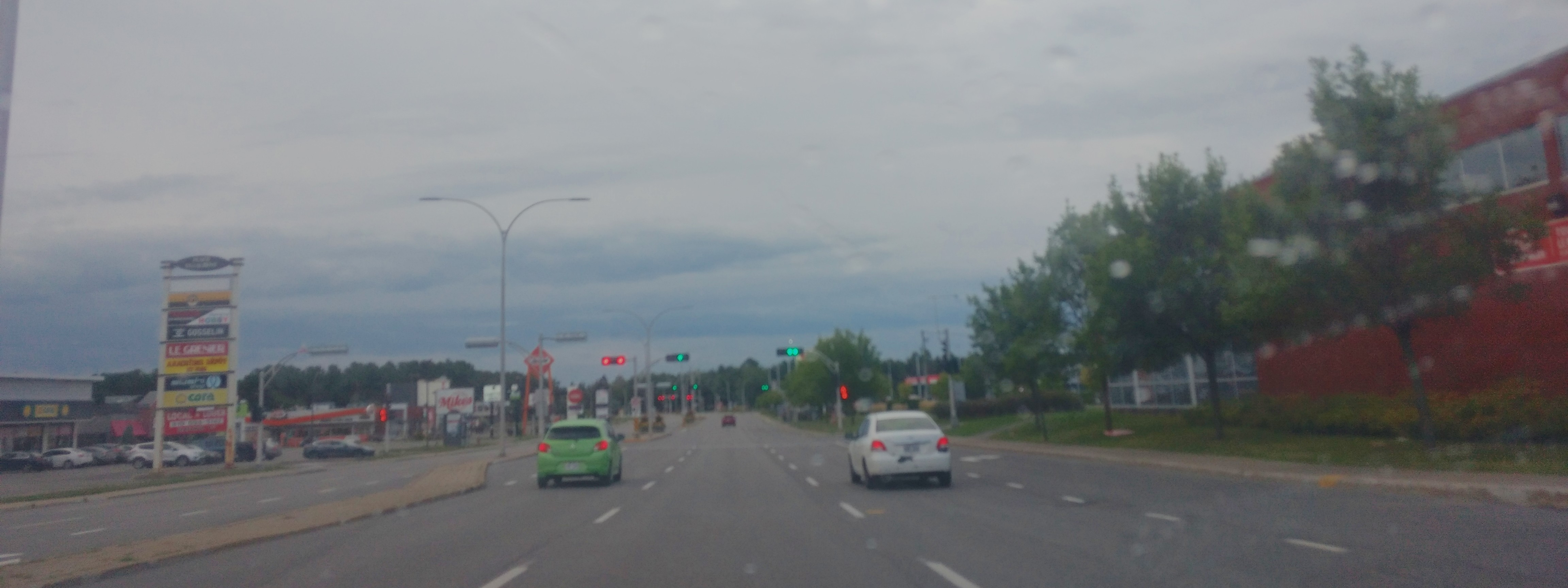 Boulevard des Forges, Trois-Rivières, QC, Canada.